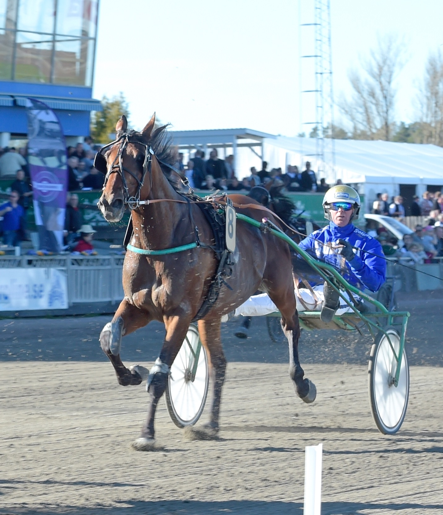 Deuxieme Picsous and driver Björn Goop at Örebrotravet, 2018-05-05.